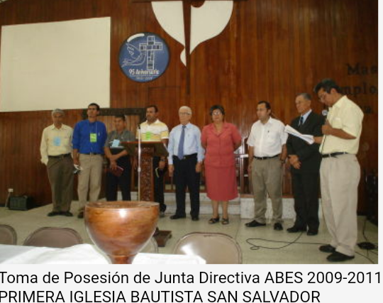 ABES, miembro de la Unión Bautista Latinoamericana